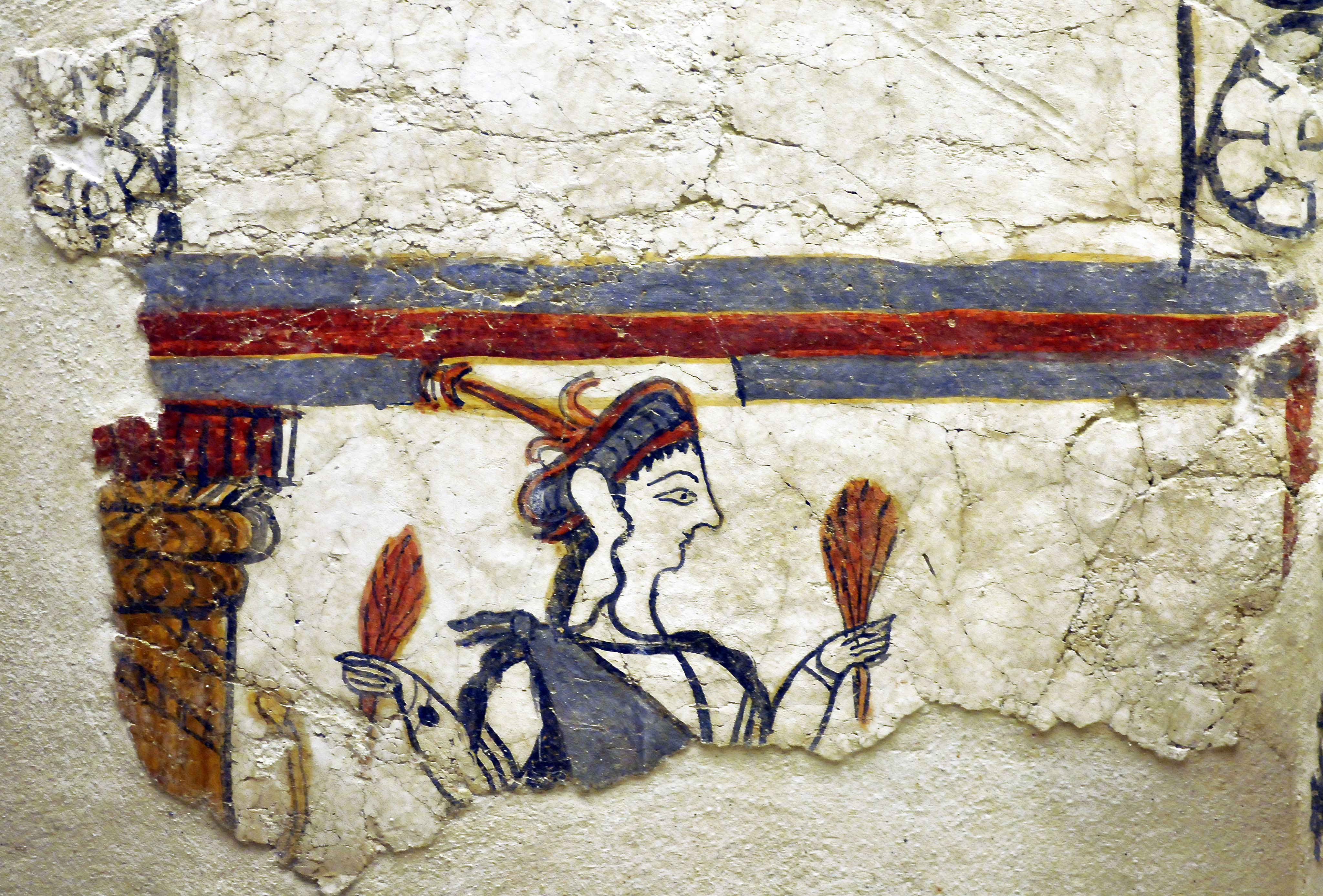 Fragment of a Mycenaean fresco; Archaeological Museum of Mycenae. Mikines, Argolis, Greece